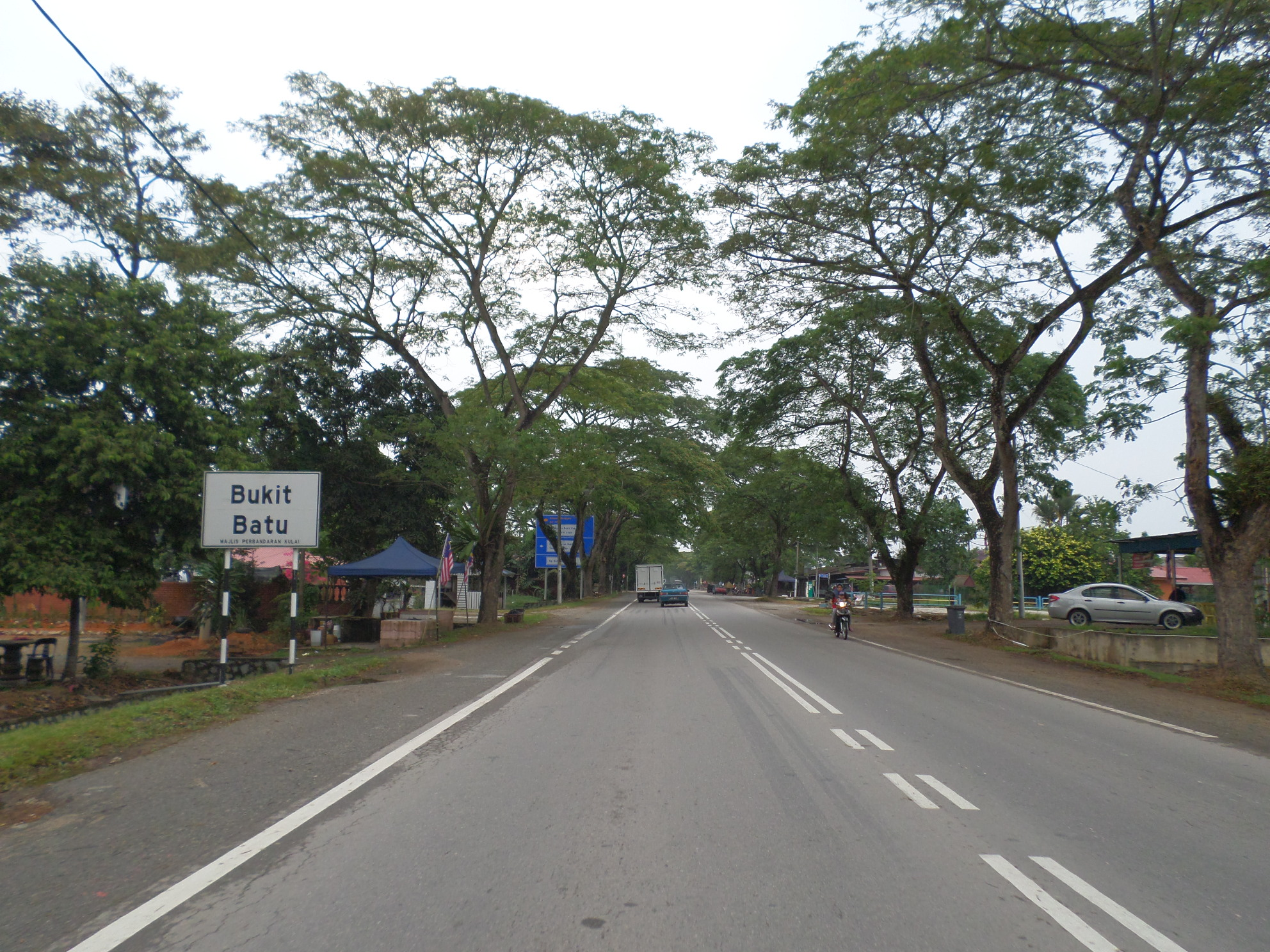 Bukit Batu, Kulai, Johor, MalaysiaBahasa Melayu: Bukit Batu, Kulai, Johor, Malaysia